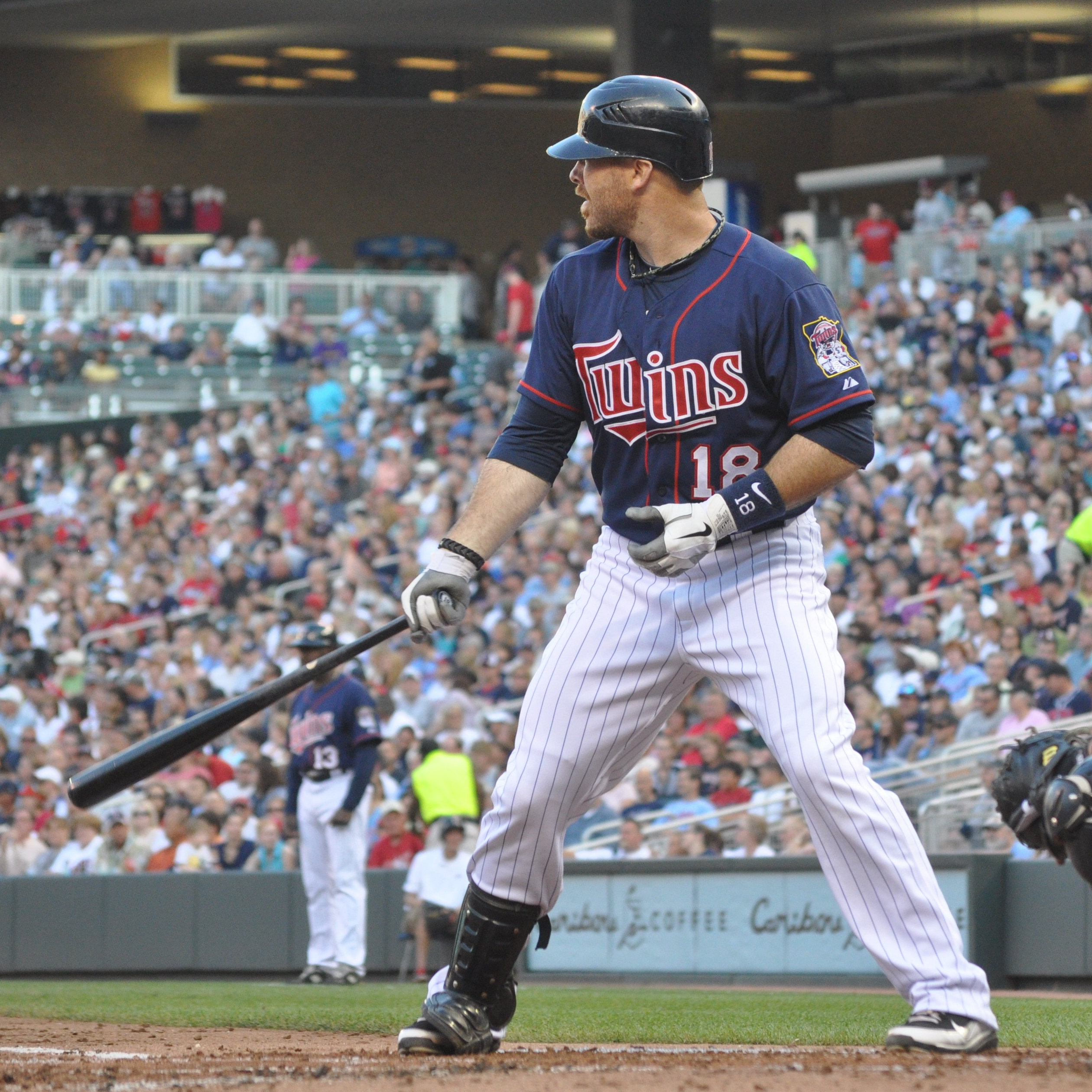 Ryan Doumit